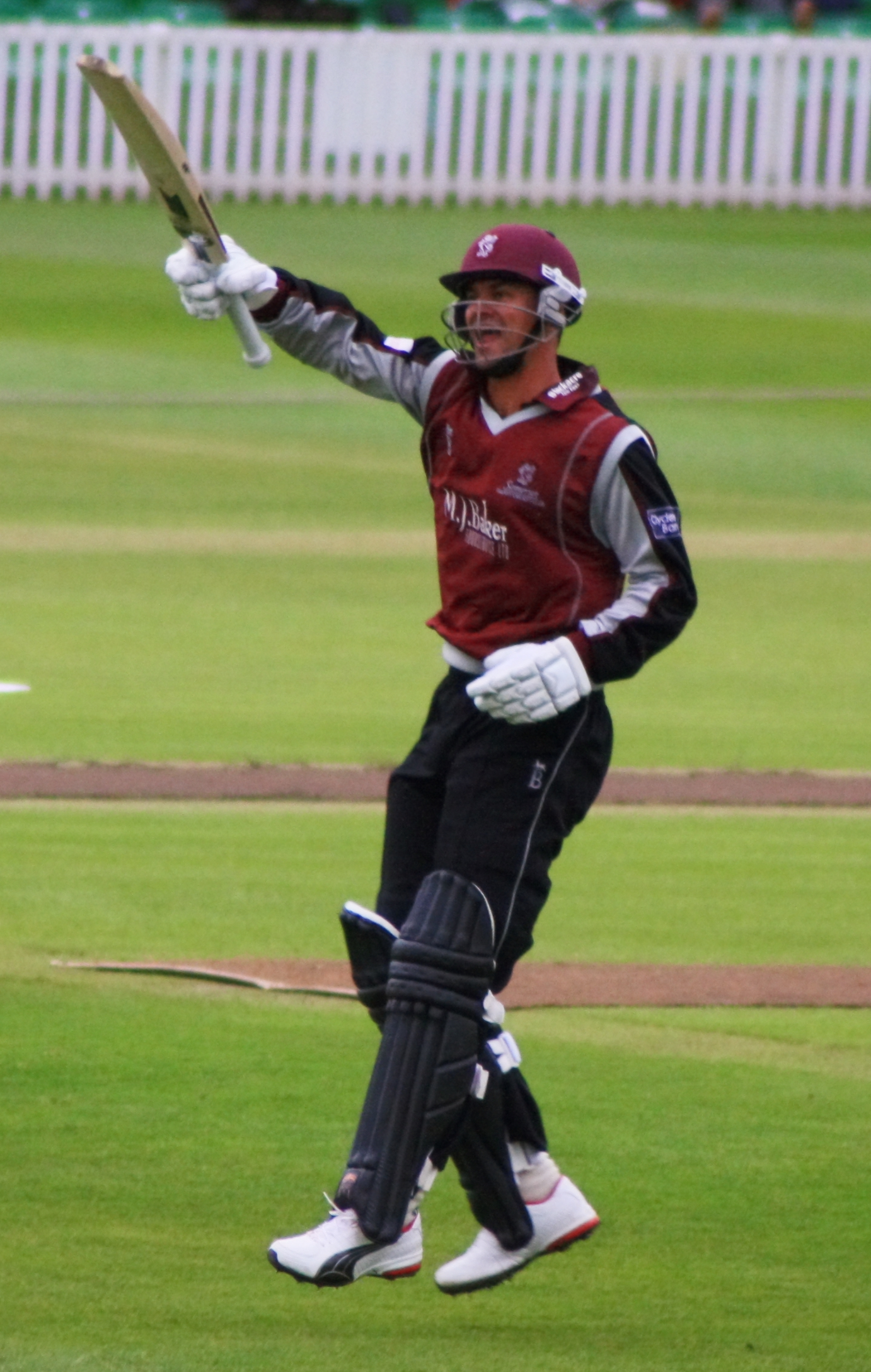 Zander de Bruyn celebrates scoring his century for Somerset against the Unicorns in a CB40 fixture at the County Ground, Taunton